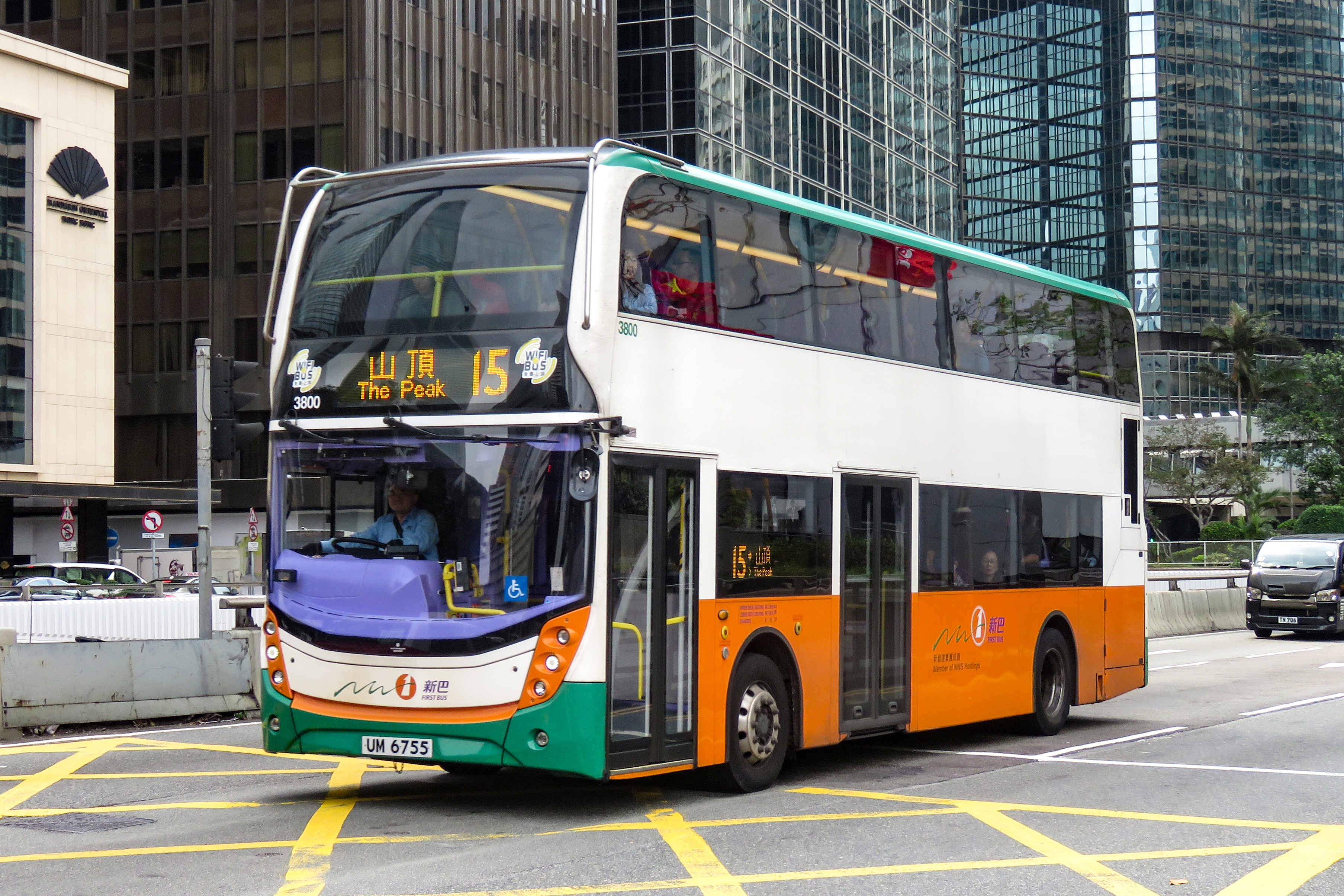 Peak traffic...